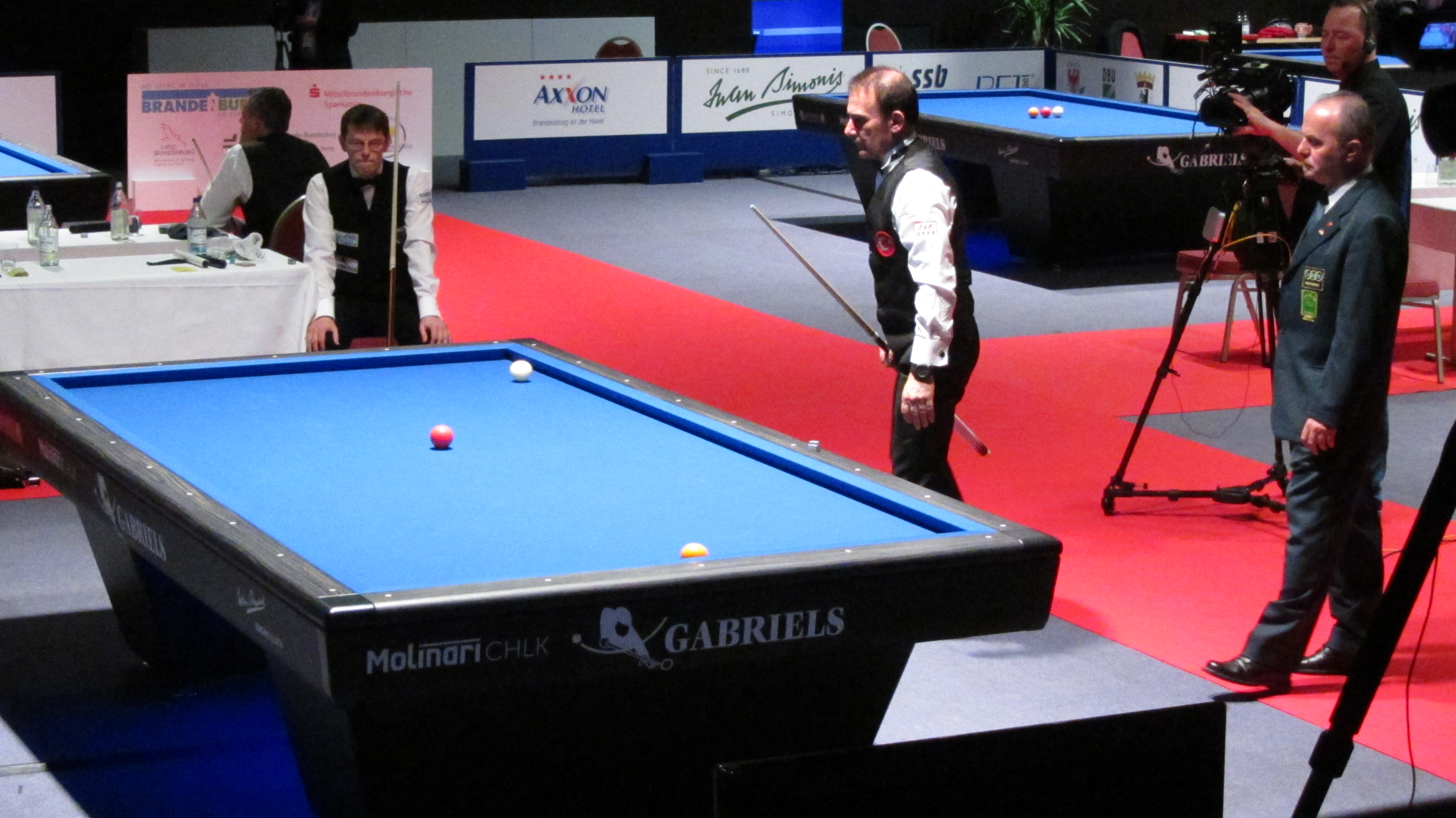 3-Cushion Semi-Finals: front: Torbjörn Blomdahl (SWE) vs. Adnan Yüksel (TUR); back left: Eddy Merckx (BEL) vs. Dick Jaspers (NLD)